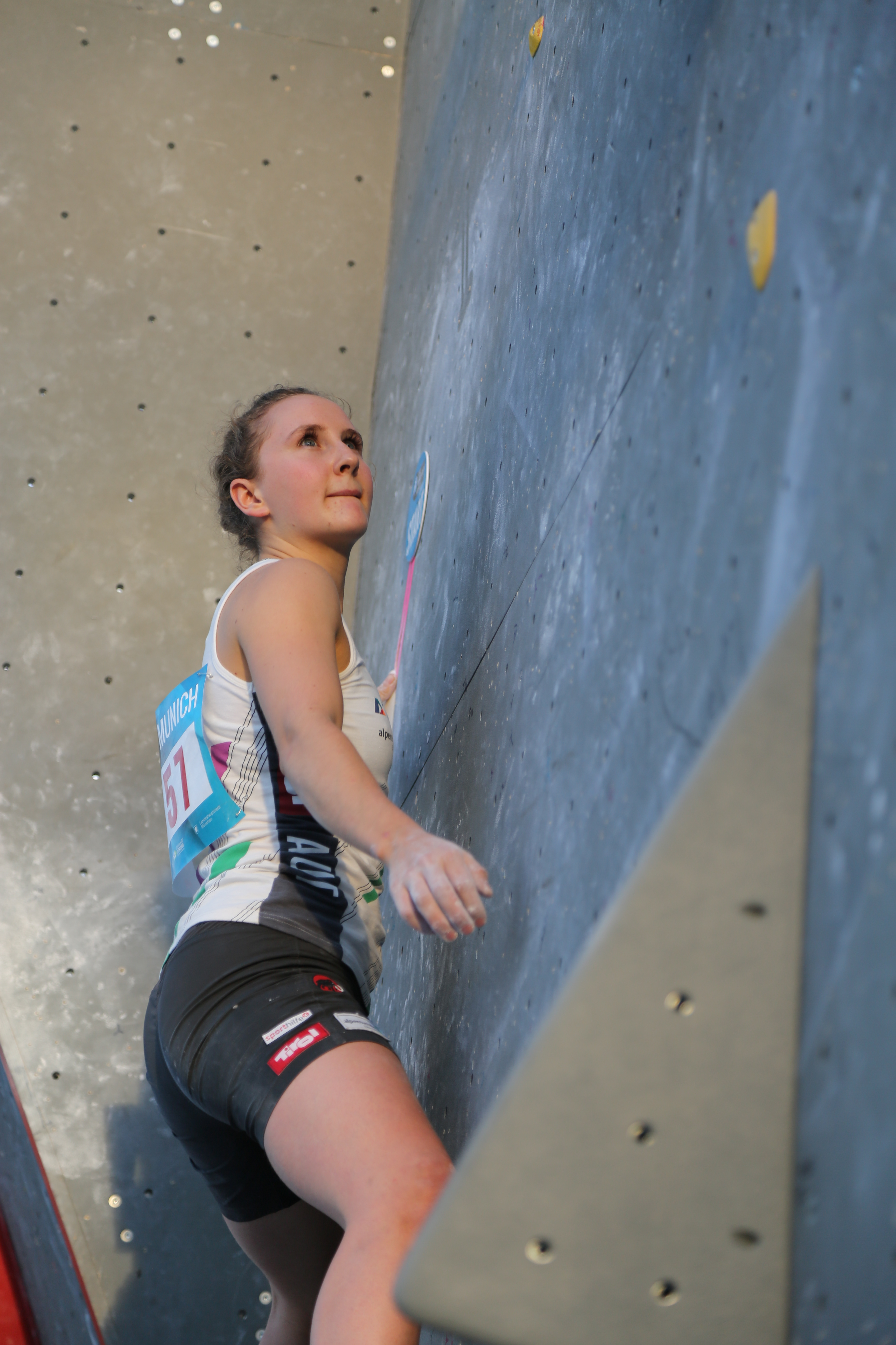 Hannah Schubert AUT at the Boulder Worldcup 2017 in Munich, Germany.